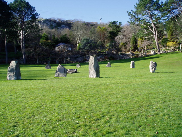 Cerrig yr Orsedd, Llandudno A stone circle in Happy Valley - not ancient, but erected as the Bardic Circle for the National Eisteddfod held in Llandudno in 1963.